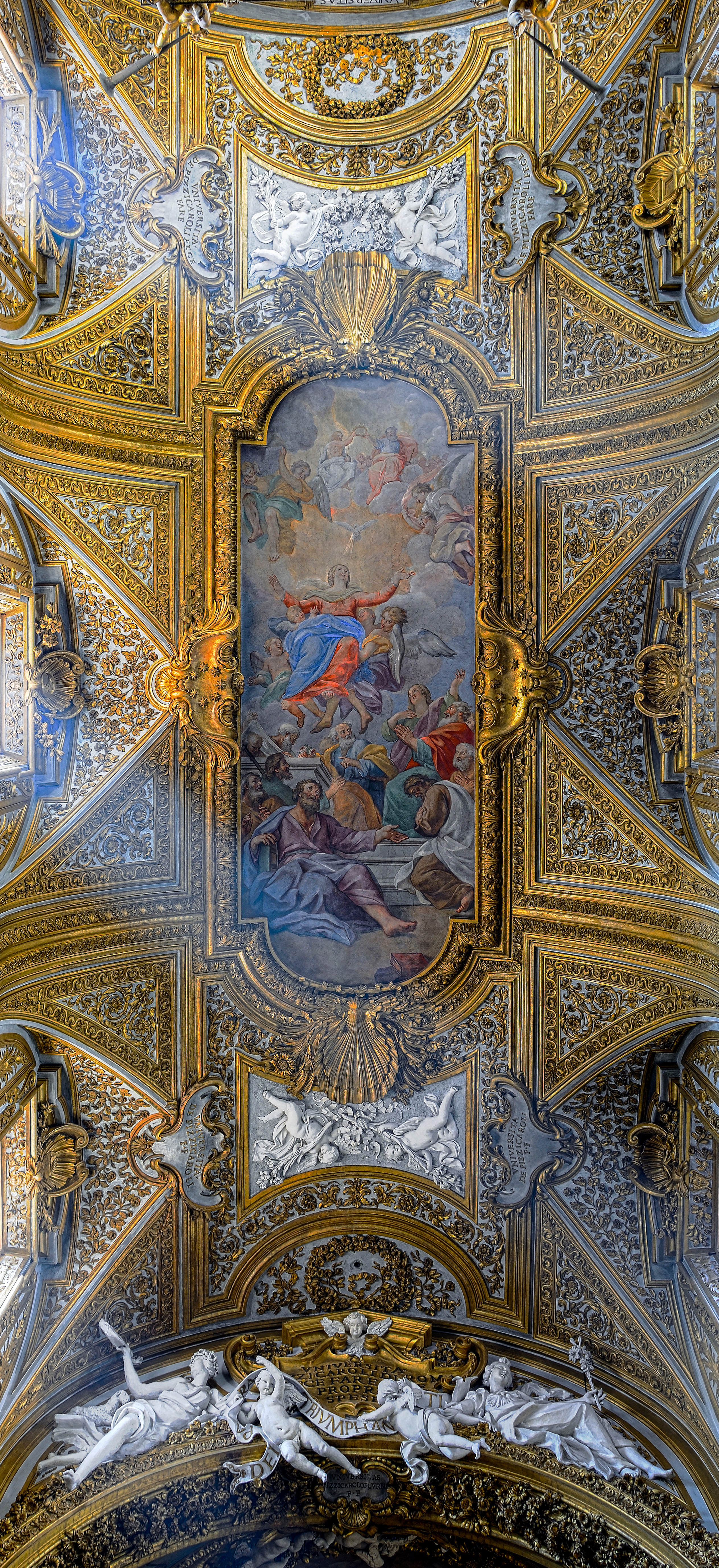 Santa Maria dell'Orto (Rome) - Ceiling